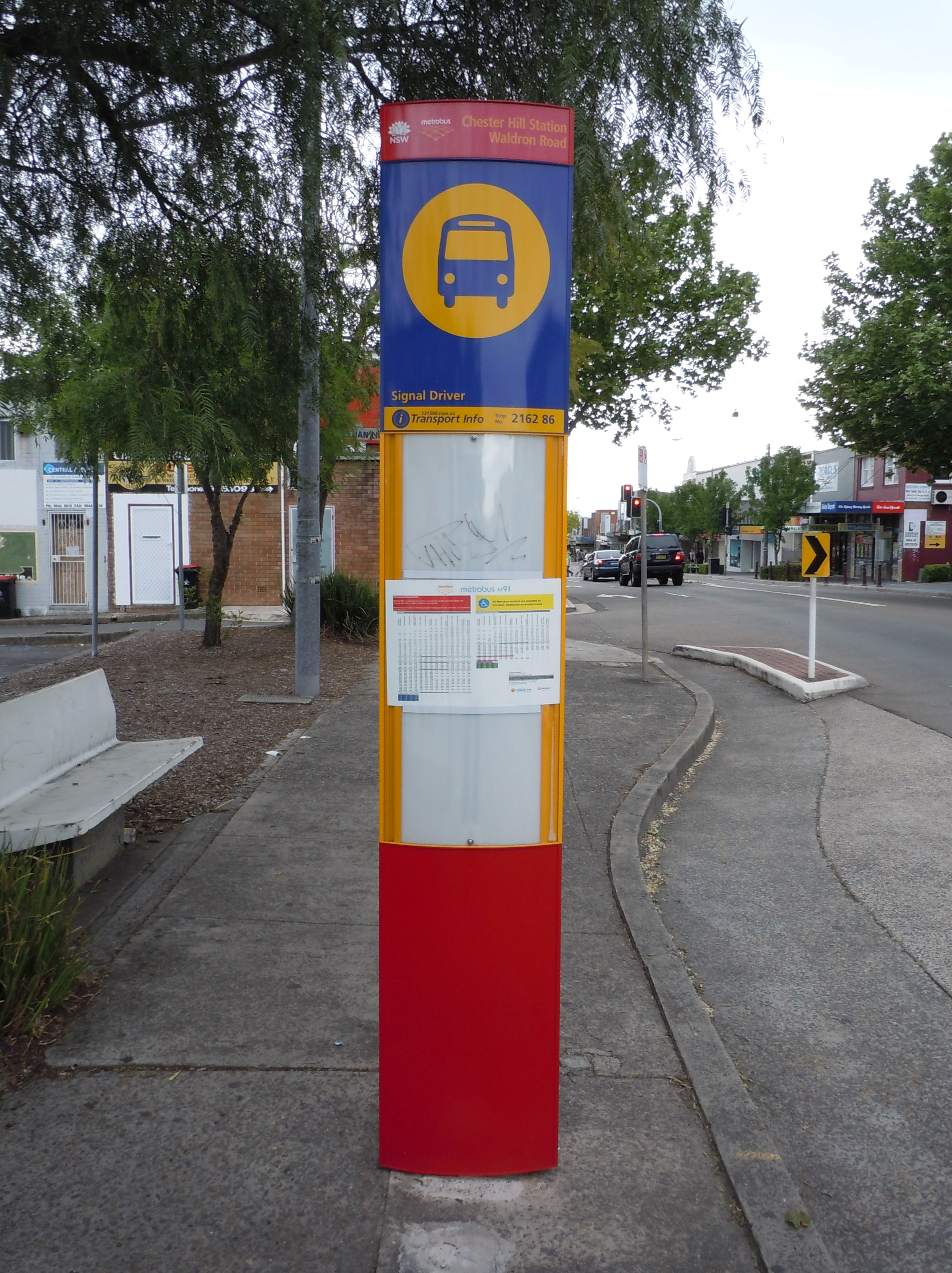 Metrobus blade stop sign at Chester Hill. This sign features the name of the stop and a red lower section indicating that the stop is served by Metrobuses.